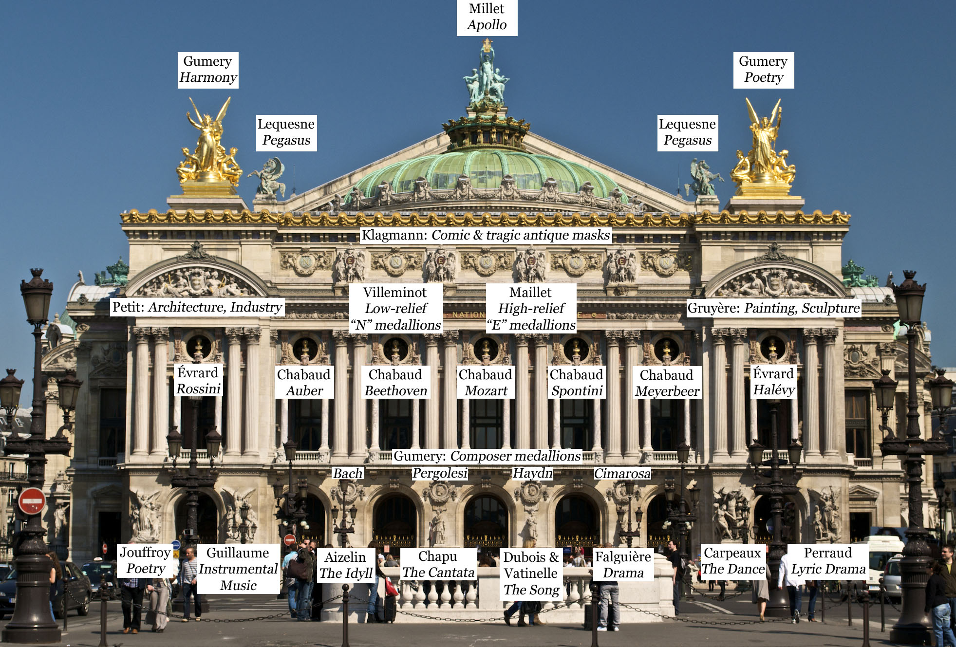 Facade of the Palais Garnier with labels indicating the locations of various sculptures. The artist names and work descriptions and/or titles are from Fontaine, Gérard (2000). Charles Garnier's Opéra: Architecture and Exterior Decor, pp. 81–101. Paris: Éditions du Patrimoine. ISBN 9782858225811, with the exception that the title of Jouffroy's sculpture Poetry is taken from Garnier, Charles (1876). Le nouvel opéra de Paris: Statues décoratives, p. 2. Paris: Librairie générale de l'architecture et des travaux publics. OCLC 633887637.